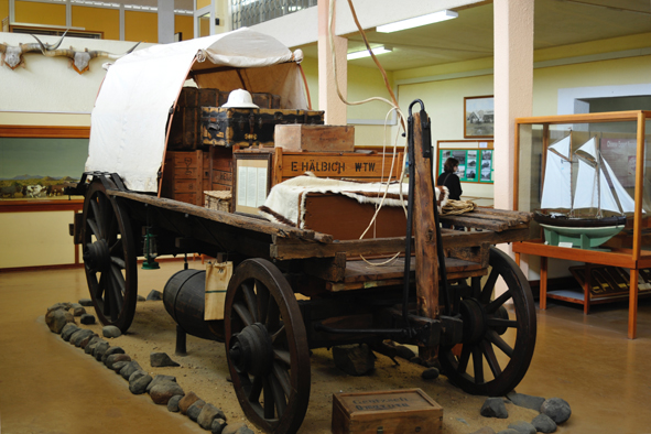 Oxcart from the car factory Eduard Hälbich, Otwingbingwe in Swakopmund Museum